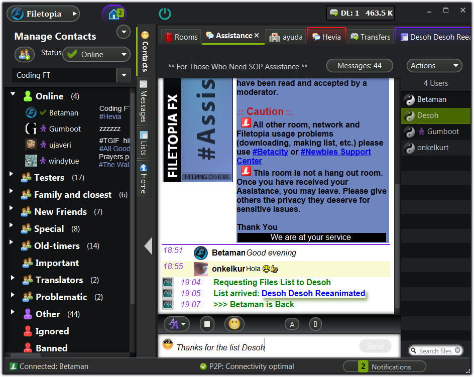 Chat window